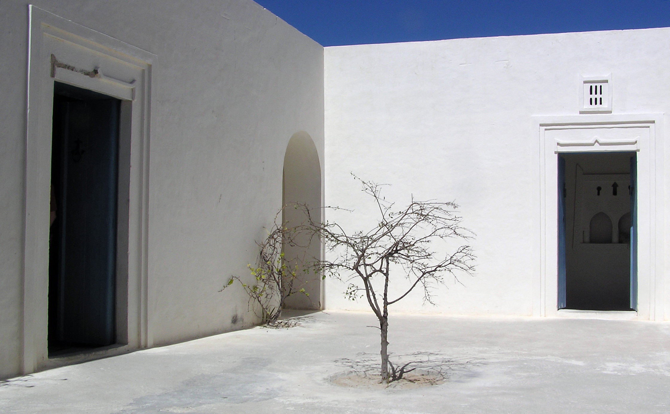 Typical interior of a Djerbian House with a henne plant in the middle, Djerba, Tunisia